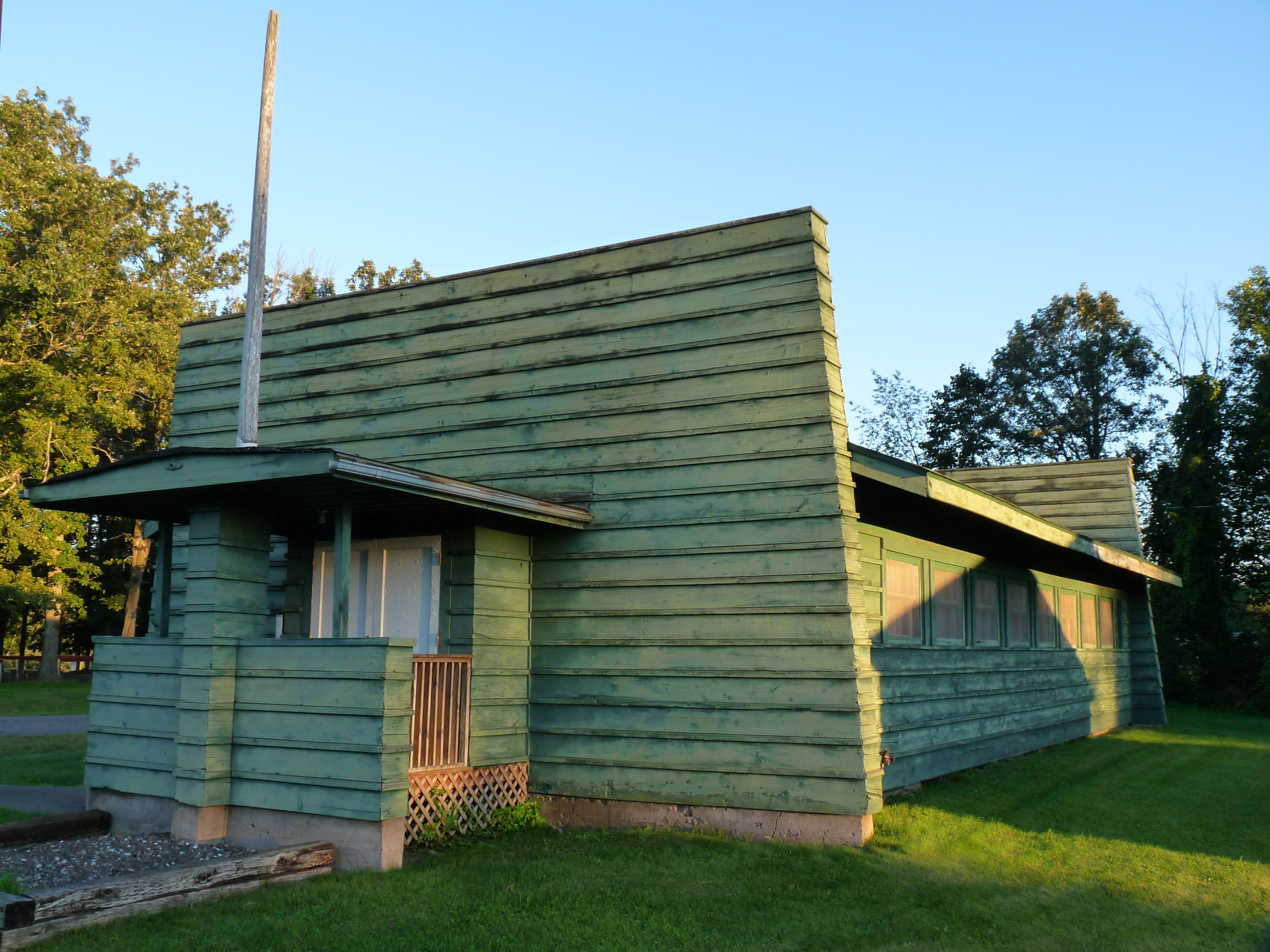 The McKinley Town Hall, in Jump River, Wisconsin was built in 1915. It is an example of Prairie School style, from the architecture firm Purcell & Elmslie.